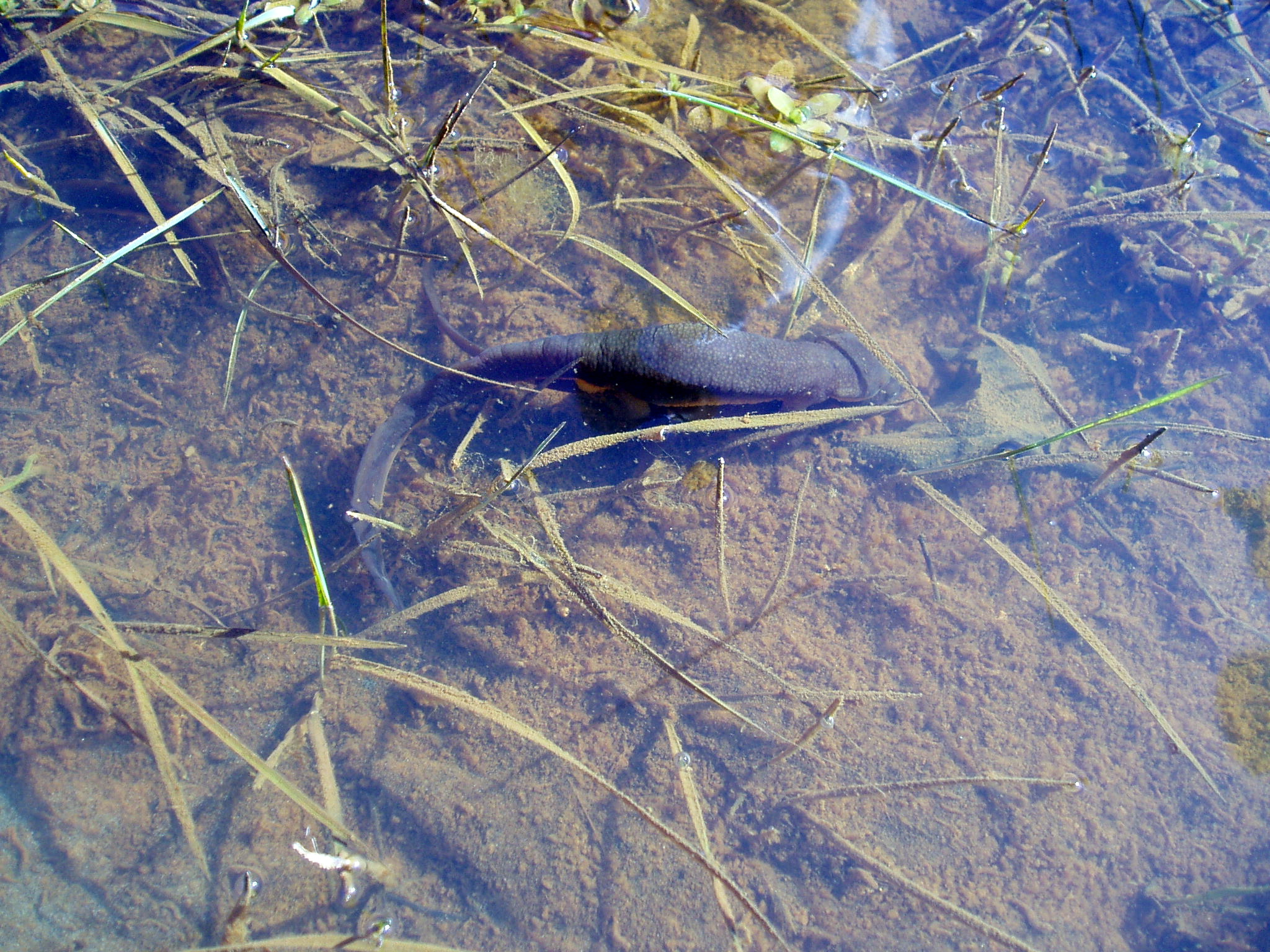 A rough-skinned newt (Taricha granulosa) under water in a creek on the Oregon Coast, United States